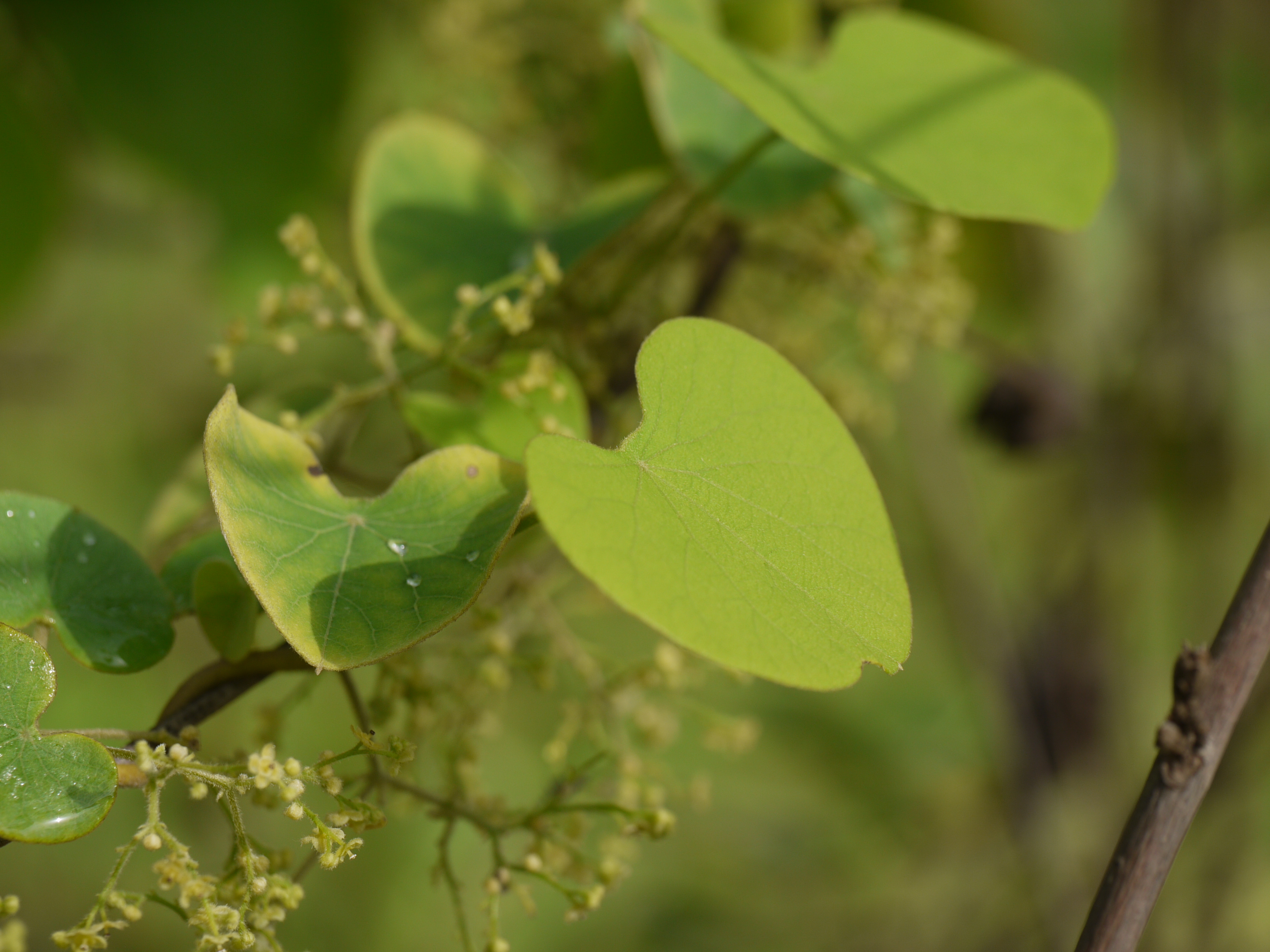 Menispermaceae (moonseed family) » Cissampelos pareira ¿ siss-am-PEL-ohs ? -- from the Greek kissos (ivy) and ampelous (vine) ¿ pah-ray-EE-rah ? -- from Brazilian name of the plant, pareira brava commonly known as: abuta, barbasco, false pareira brava, false pareira root, ice vine, midwife's herb, pereira root, velvet leaf • Assamese: tubukilota • Bengali: kijri • Gujarati: વેણીવેલ venivel • Hindi: bhatvel, padh • Kannada: ಪರೆರಾ ಬೇರು parera beru • Khasi: jyrmi salla • Konkani: पहाडवेल pahadvel • Malayalam: മലതാണ്ടി malathaanti, പാടത്താളി paataththaali • Marathi: धाकटी पाडावळ dhakati padaval, लहान पहाडवेल lahan pahadvel, पहाडमूळ pahadmul • Nepalese: barel-panrhe, sulara • Oriya: ghodakur • Sanskrit: लघु पाठा laghu patha • Tamil: வட்டத்திருப்பி vatta-t-tiruppi • Telugu: పాట విష బొద్ది pata visah boddi Distribution: pantropical References: Flowers of India • Tropilab • rain-tree • ENVIS - FRLHT